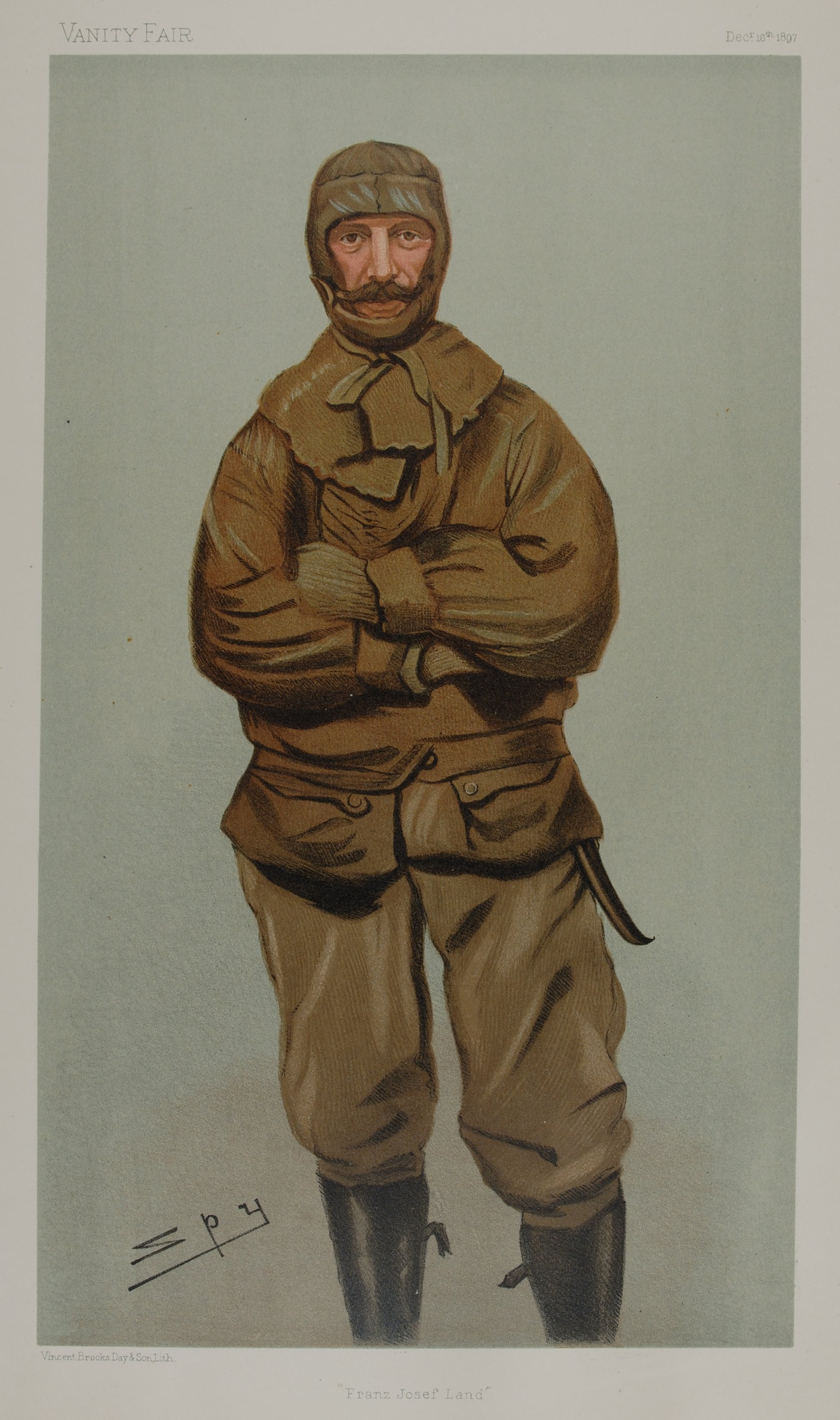 Men of the Day No. 697: Caricature of explorer Frederick George Jackson, at the age of 37. Caption read "Franz Josef Land".